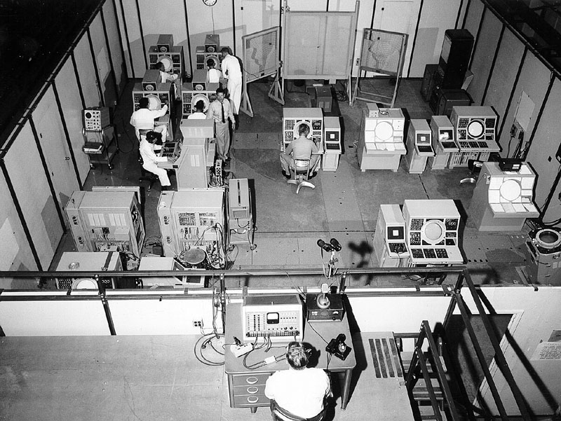 Naval Tactical Data System (NTDS) training in full scale mock-up of a shipboard Combat Information Center.